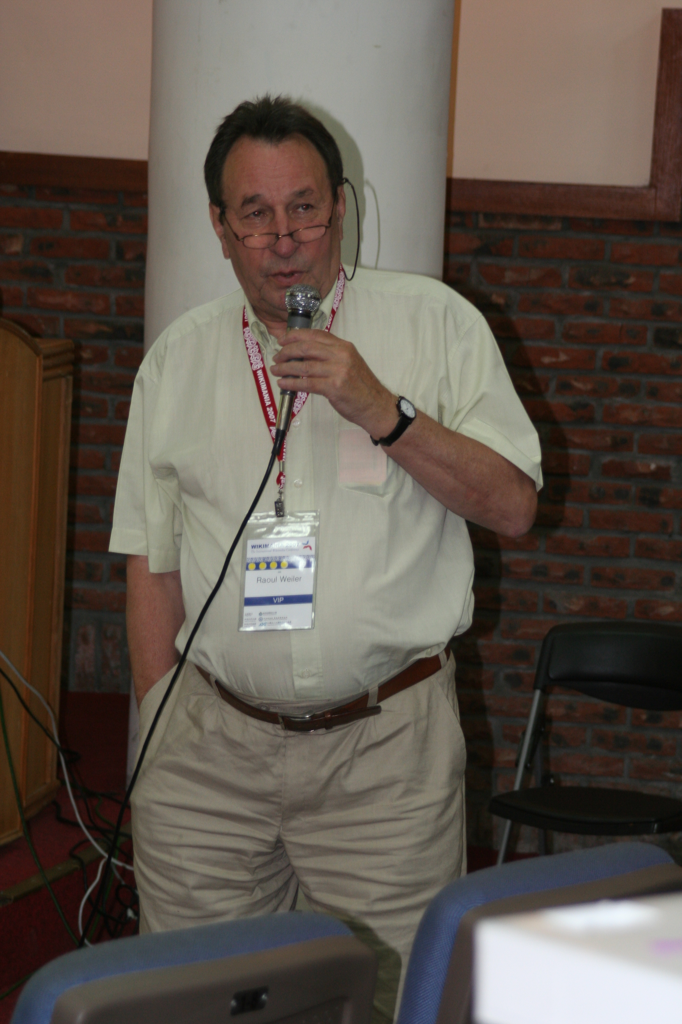 Wikimania 2007, session 701: speaker Raoul Weiler, from the Club of Rome.